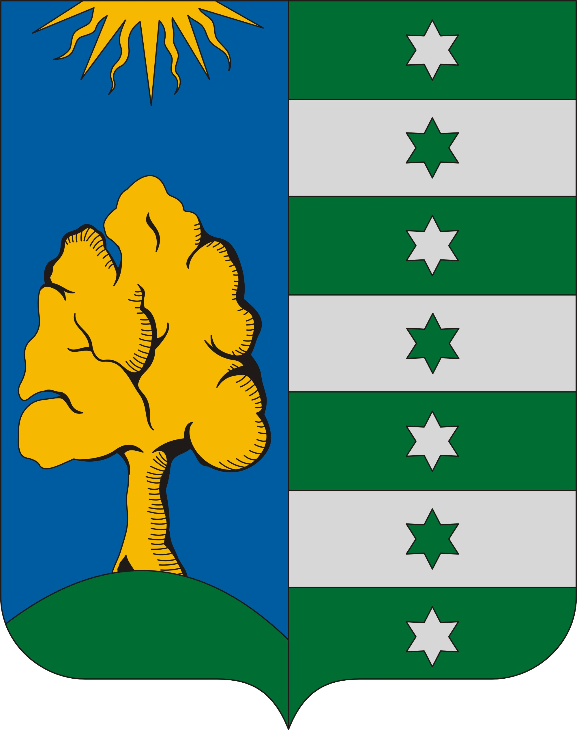 Coat of arms of Becsvölgye, Hungary